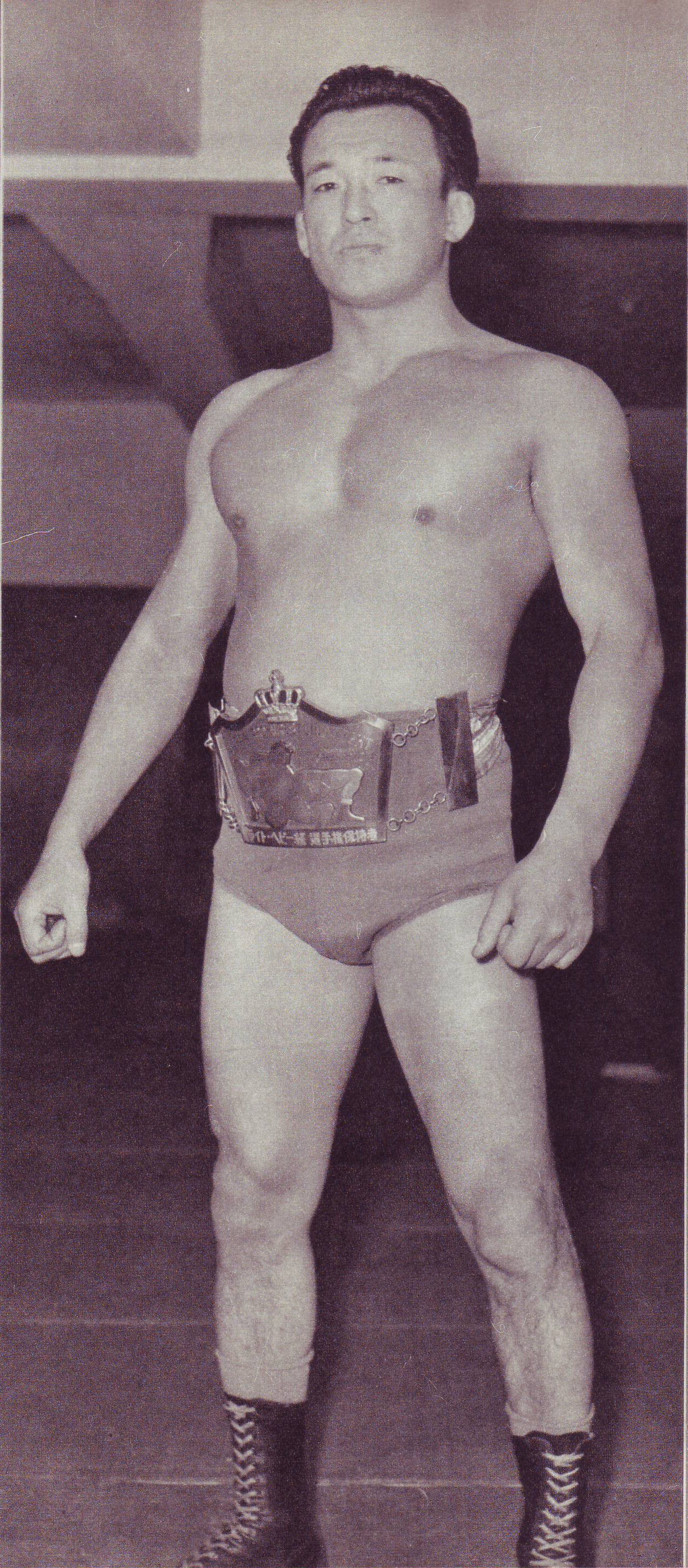 Isao Yoshihara (Japanese professional wrestler). taken in 1960 to 1962.